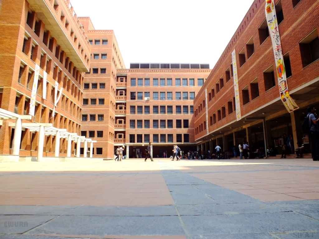 Students in the campus ground